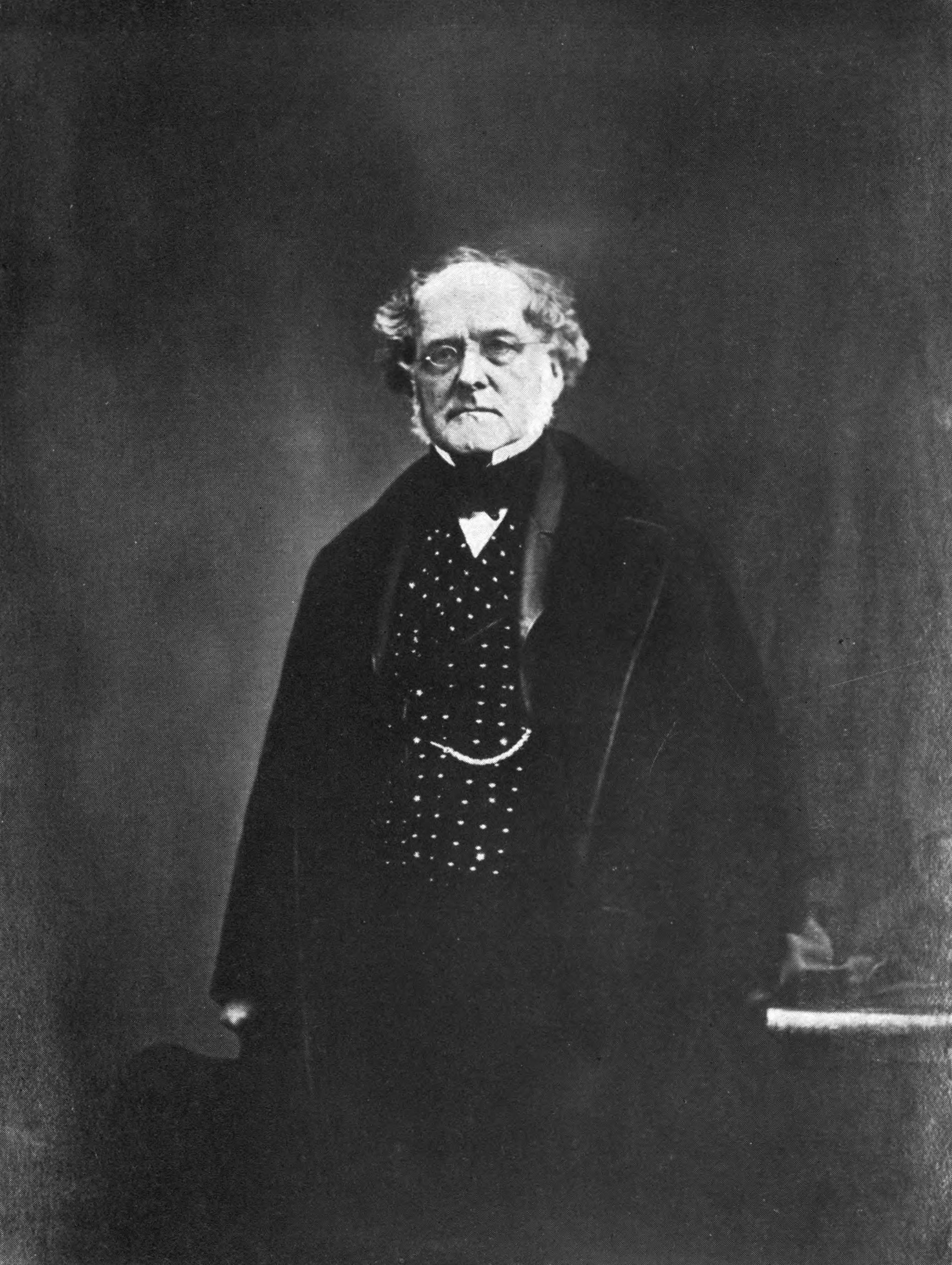 Photograph of United States bibliophile and founder of the Lenox Library (now part of the New York Public Library) James Lenox.